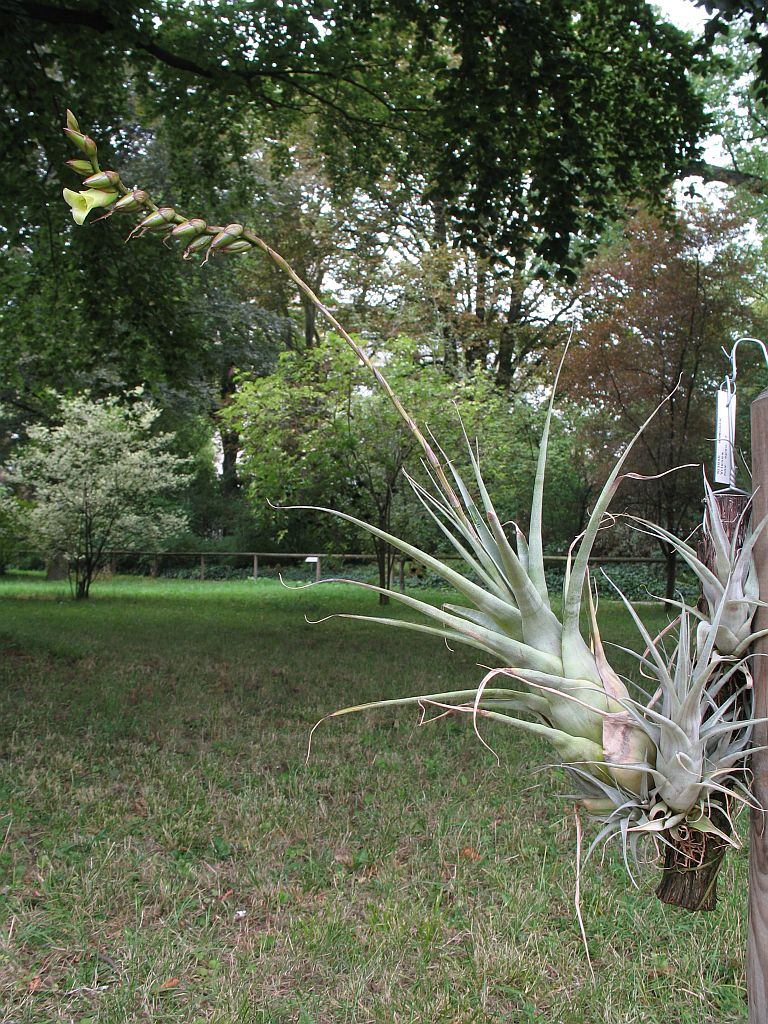 Vriesea pseudoligantha in cultivation at the Botanical Garden of Heidelberg, Germany.